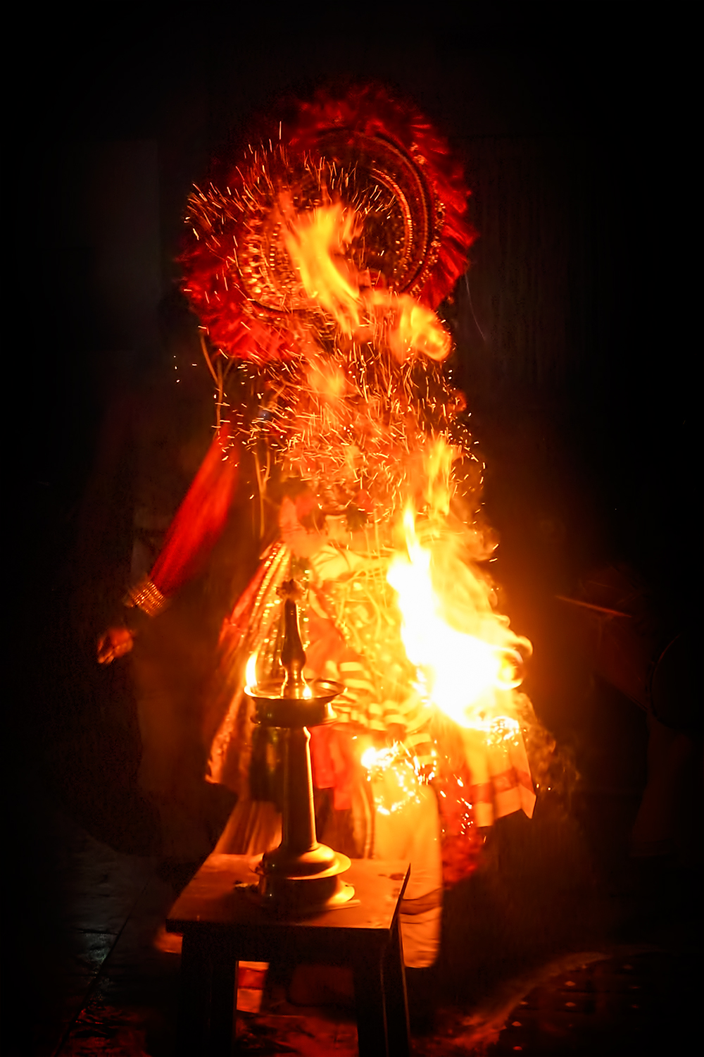 This was taken from Trivandrum